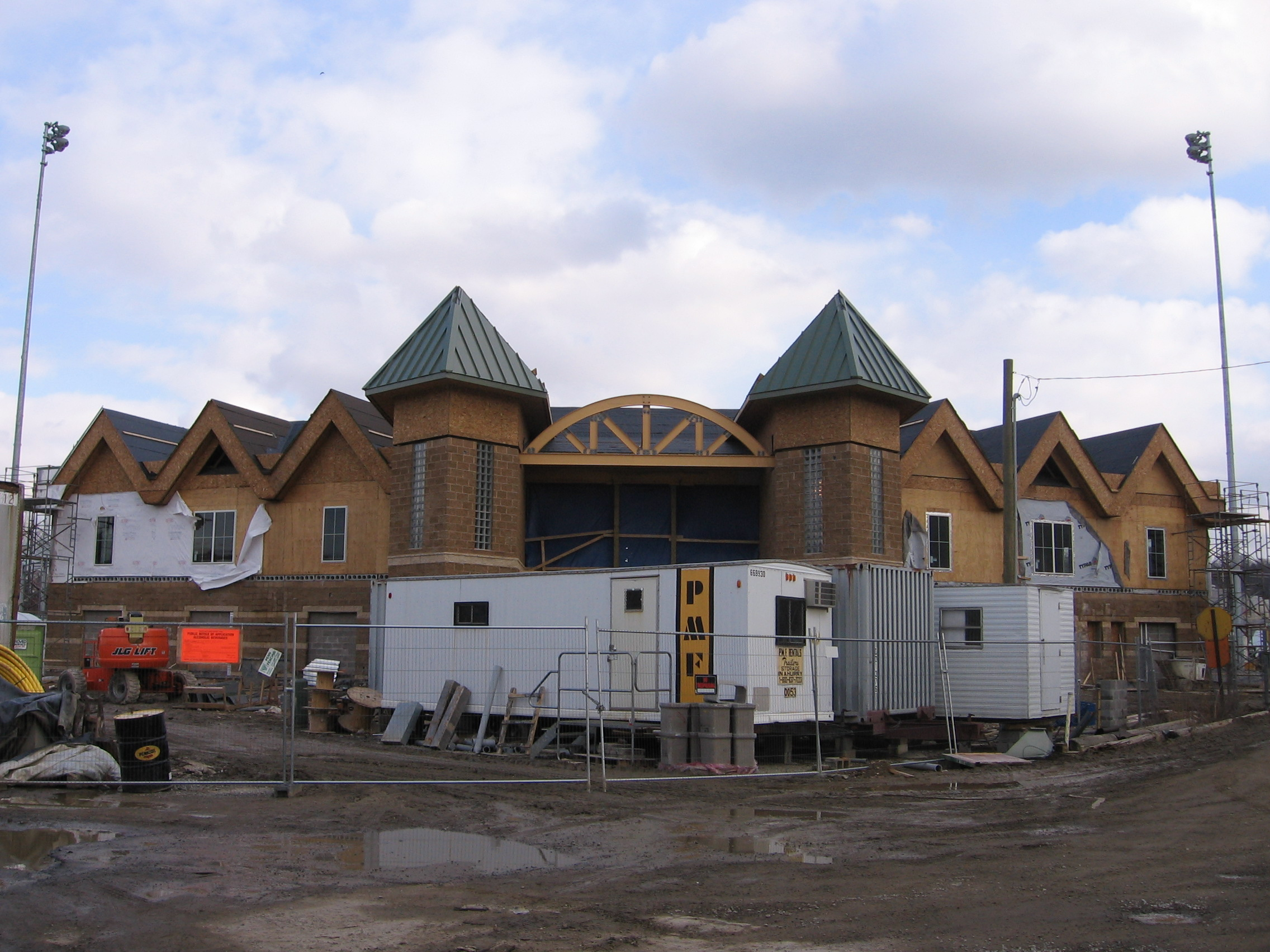 Pullman Park being rebuilt in March of 2008.